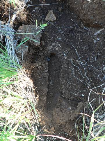 Fan-shaped substrate outside the burrow of Opistophthalmus pugnax. Note the enlarged part of the burrow for resting or consuming prey.